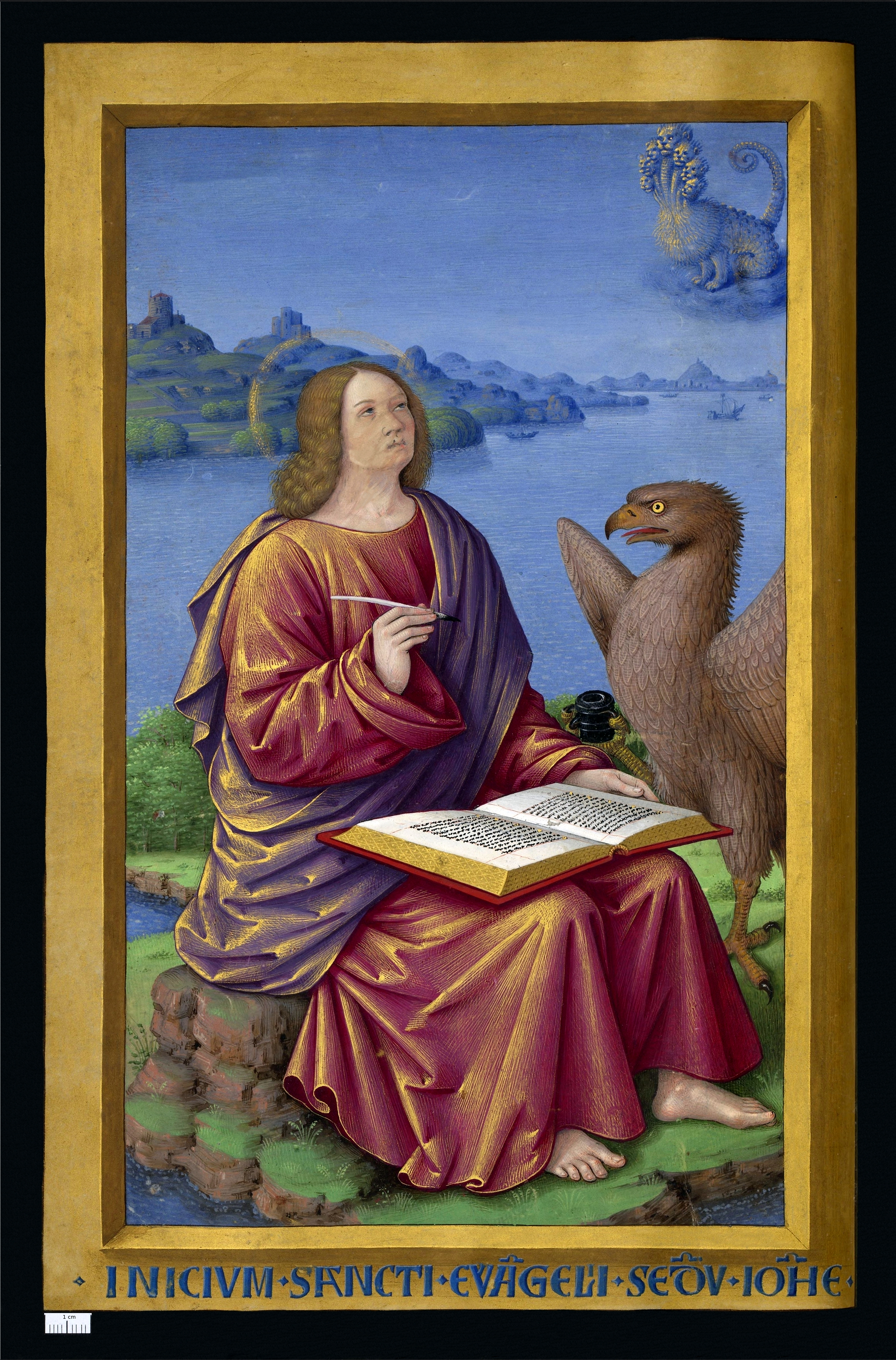 John the Evangelist, miniature from the Grandes Heures of Anne of Brittany, Queen consort of France (1477-1514).